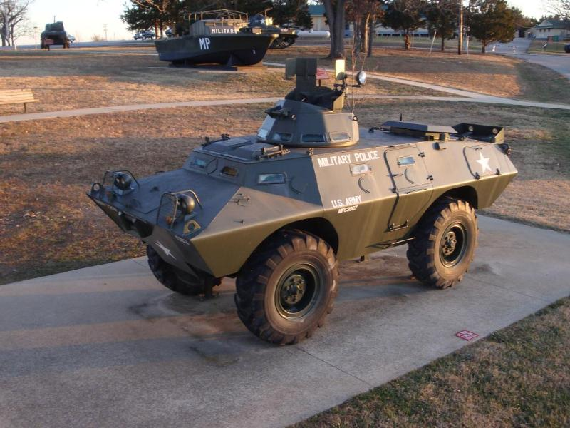 M706 Car at Engineering School, Fort Leonard Wood, Missouri